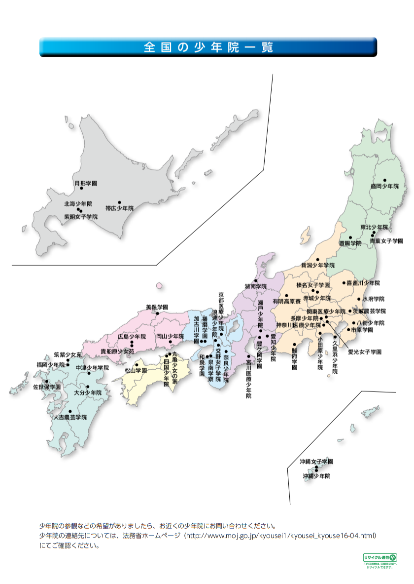 List of juvenile training schools in Japan